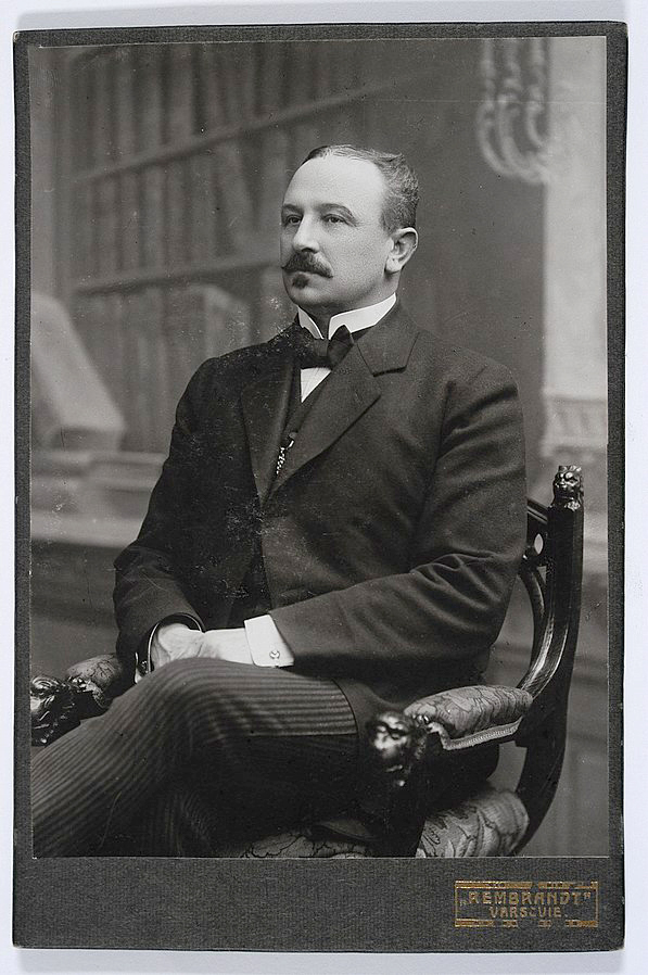 Józef Czajkowski, ok. 1920 r.